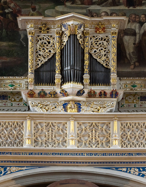 Small organ from the Marienkirche in Halle